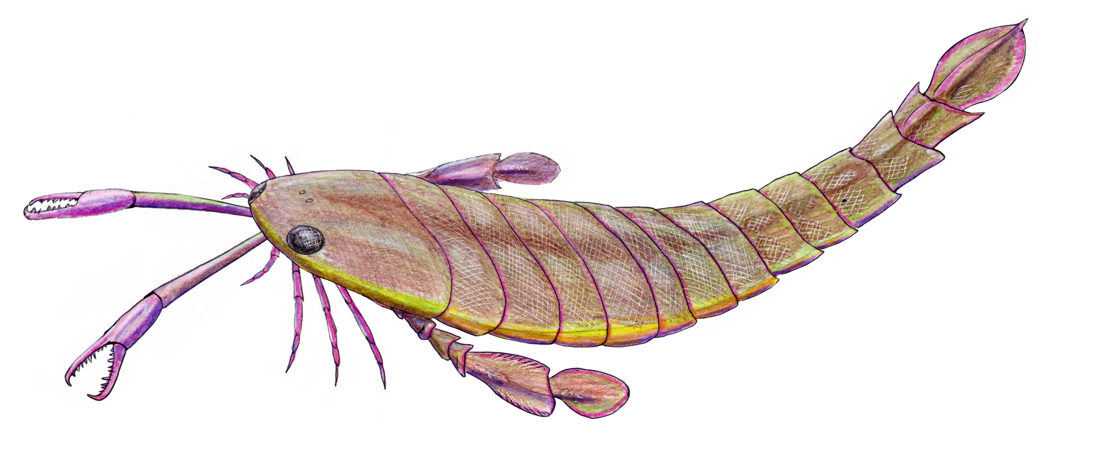 Pterygotus anglicus - giant Eurypterid from Devonian of England